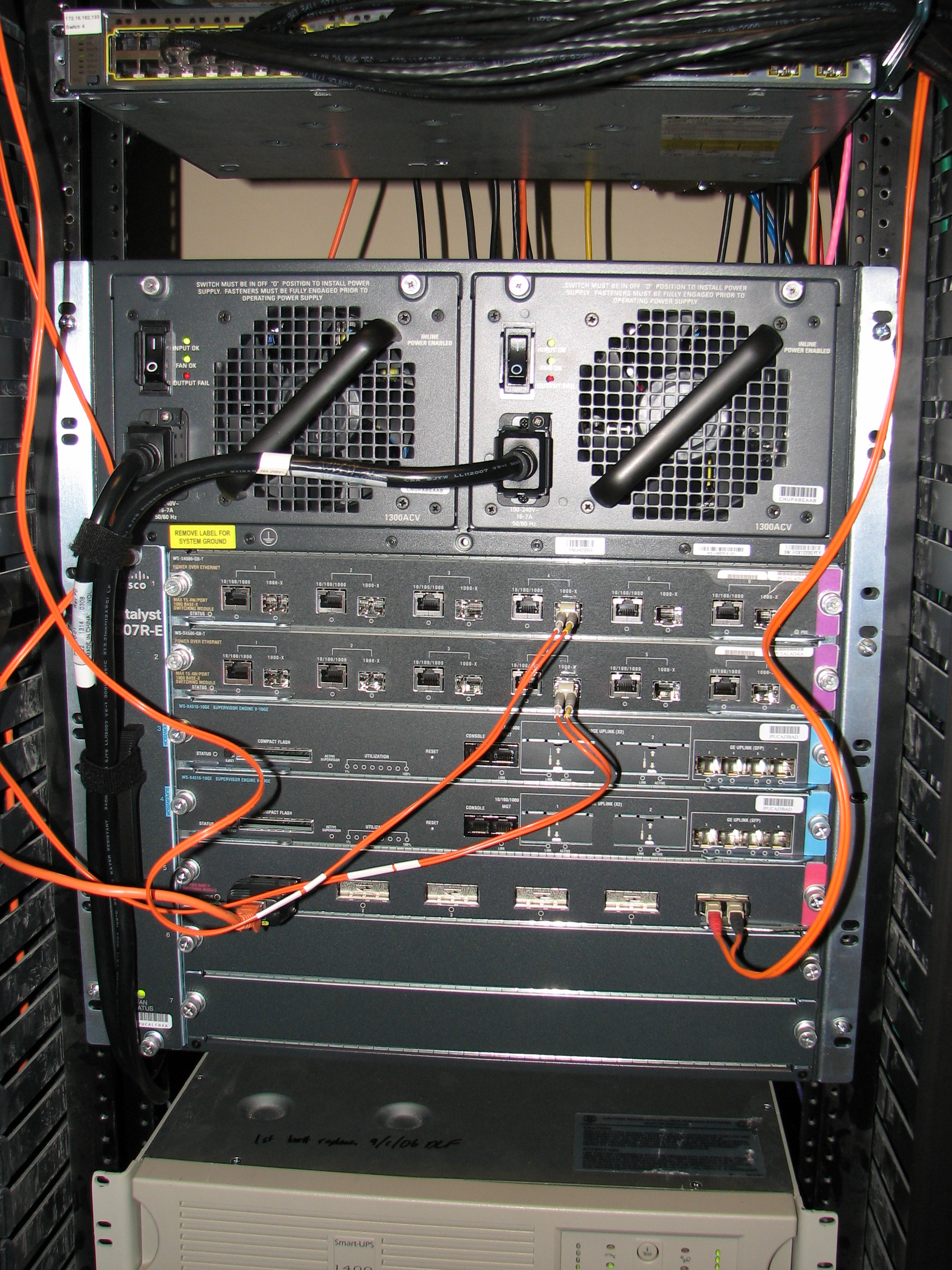 Our new core switch, a Cisco 4507R with dual Sup V-10GE cards and other miscellaneous blades.